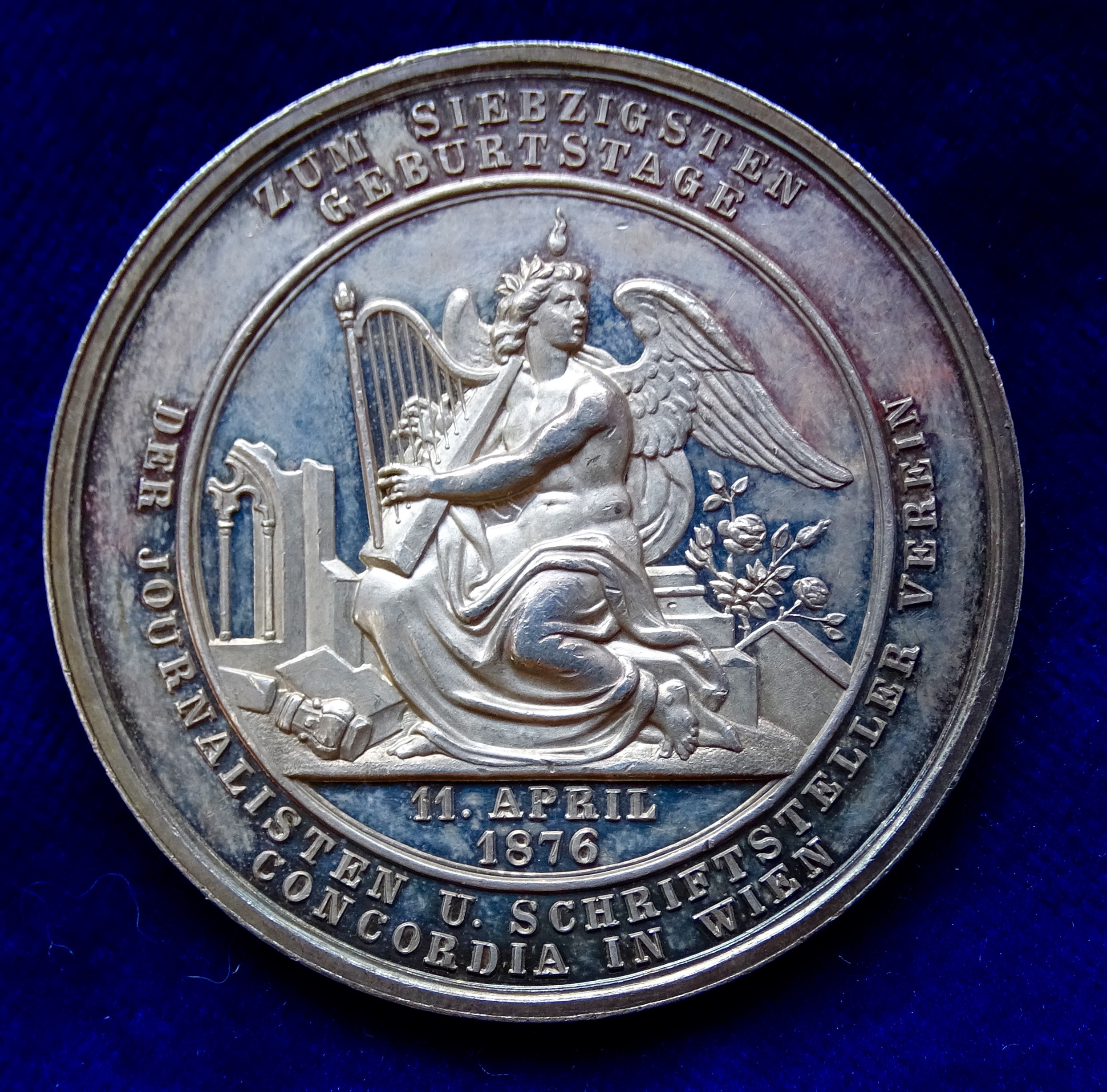 Vienna, Alexander von Auersperg Silver Medal 1876 Medallion d. = 47 mm. 35.47 g Ag Count Anton Alexander von Auersperg, Austrian poet and politician, also known under the name Anastasius Grün, 1806 Laibach (Ljubljana), Slovenia - 1876 Graz, Austria Head l., curved above: "ANASTASIUS GRÜN"/ Harp playing angel, 2 lines below: "11. April 1876". 2 lines around: "ZUM SIEBZIGSTEN GEBURTSTAGE DER JOURNALISTEN U. SCHRIFTSTELLER VERBAND CONCORDIA IN WIEN". Wurzbach 3403; Stadt Leipzig Museum MS/5352/2005 Medallist: C.R. (Carl Radnitzky), 1818 Wien - 1901 Vienna, Austria.